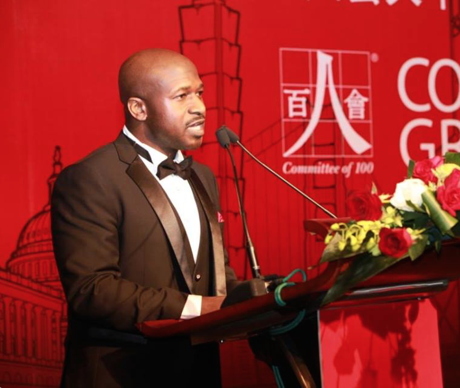 Andrew Ballen at Committee of 100 Event in Beijing